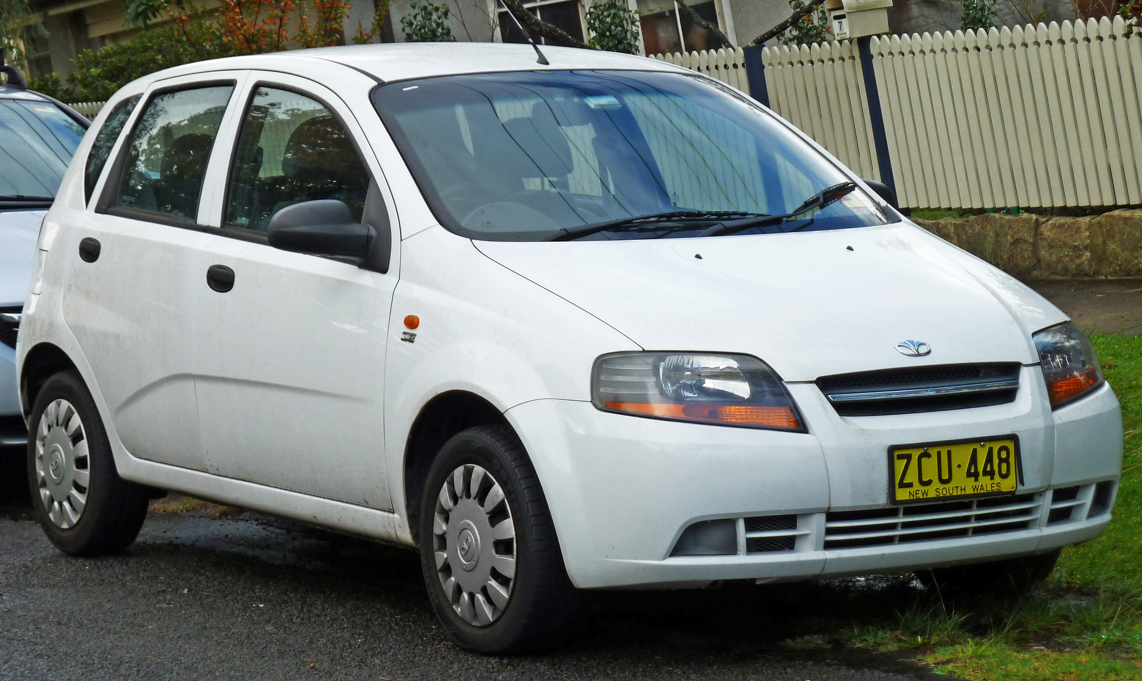 2004 Daewoo Kalos (T200) SE 5-door hatchback. Photographed in Lindfield, New South Wales, Australia.